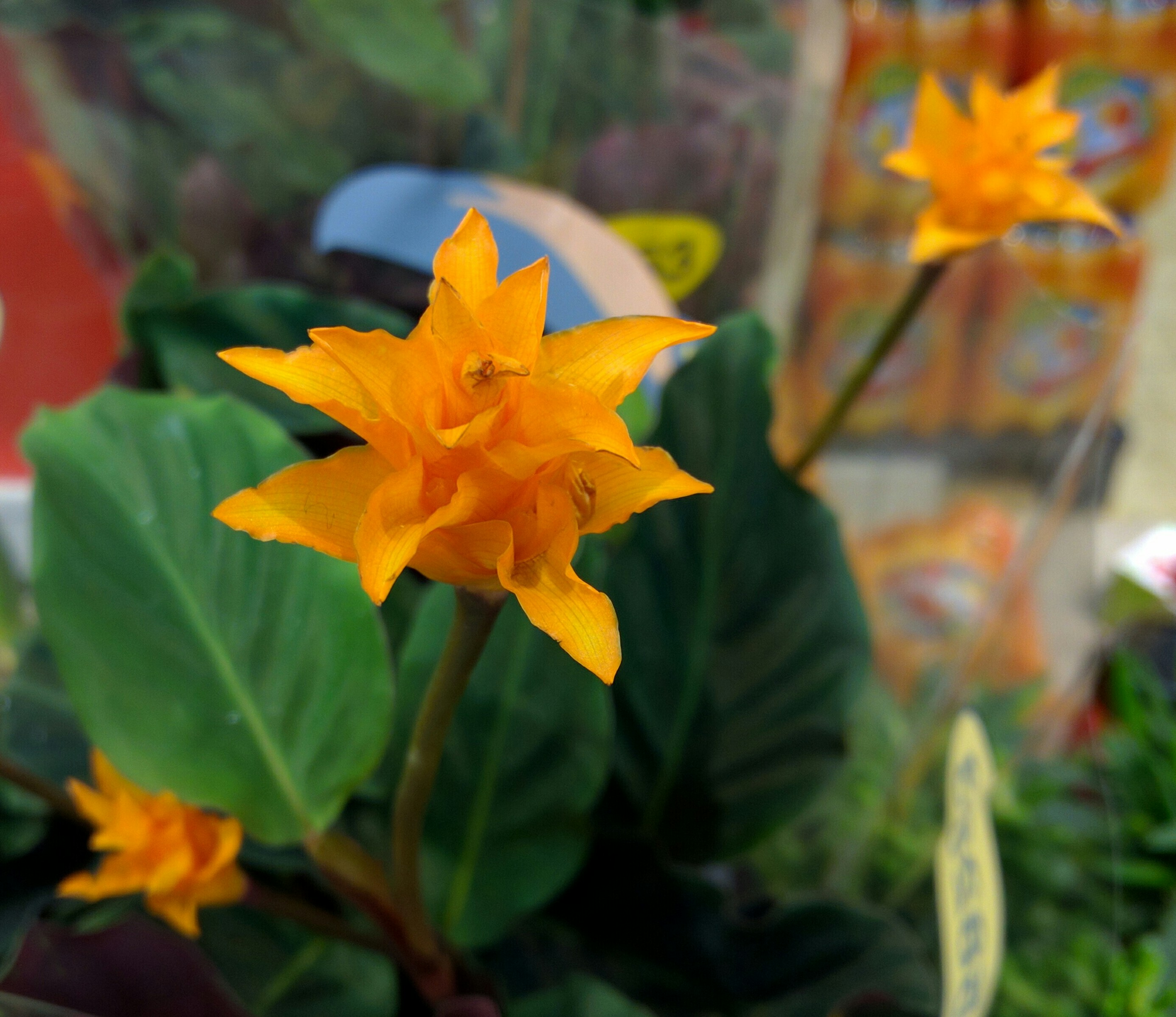 Calathea crocata